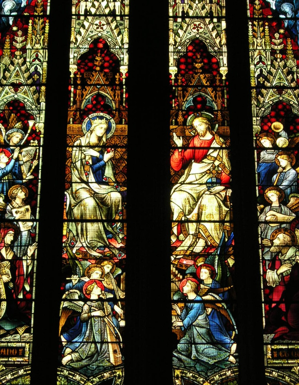 Sydney, St Marys Roman Catholic Cathedral, detail of Chancel window by John Hardman and Co